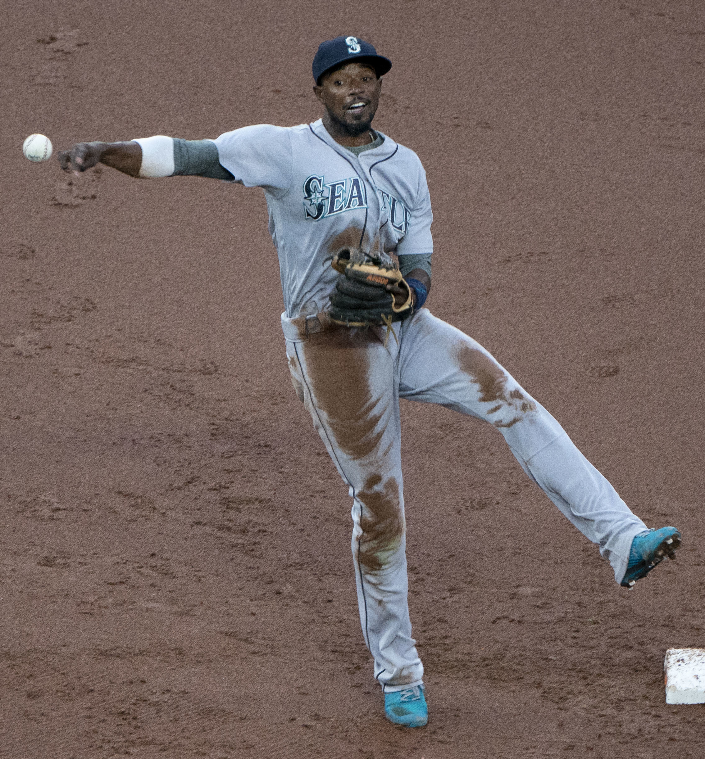 Mariners at Orioles 6/25/18